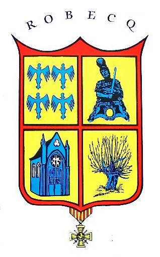 Emblème de Robecq (et non blason)